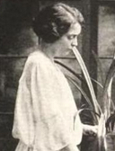 A white woman, standing, wearing a loose and drapy white dress.